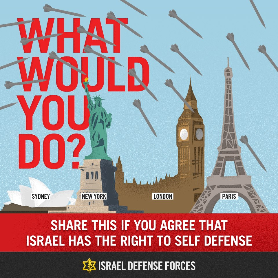 In response to the incessant rocket attacks from the Gaza Strip – more than 700 have struck Israel since the beginning of the year, and more than 120 since Saturday – the IDF has launched a widespread campaign against terror targets in Gaza. The operation, called Pillar of Defense, has two main goals: to protect Israeli civilians and to cripple the terrorist infrastructure in Gaza.